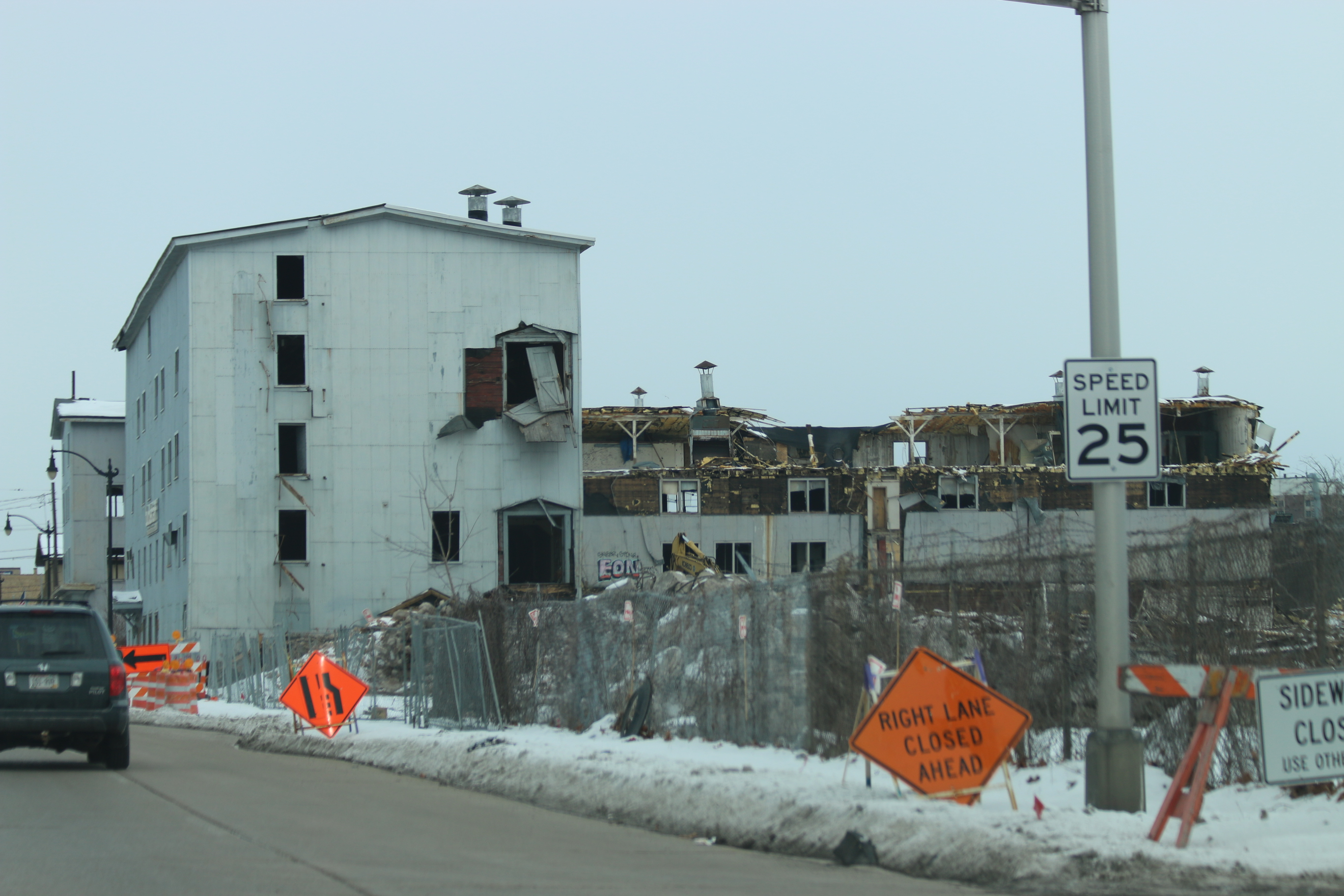 The Buckstaff Furniture Building during dismantlement. The building is being razed to construct an arena for a new NBA D-League team for the Milwaukee Bucks in Oshkosh, Wisconsin.